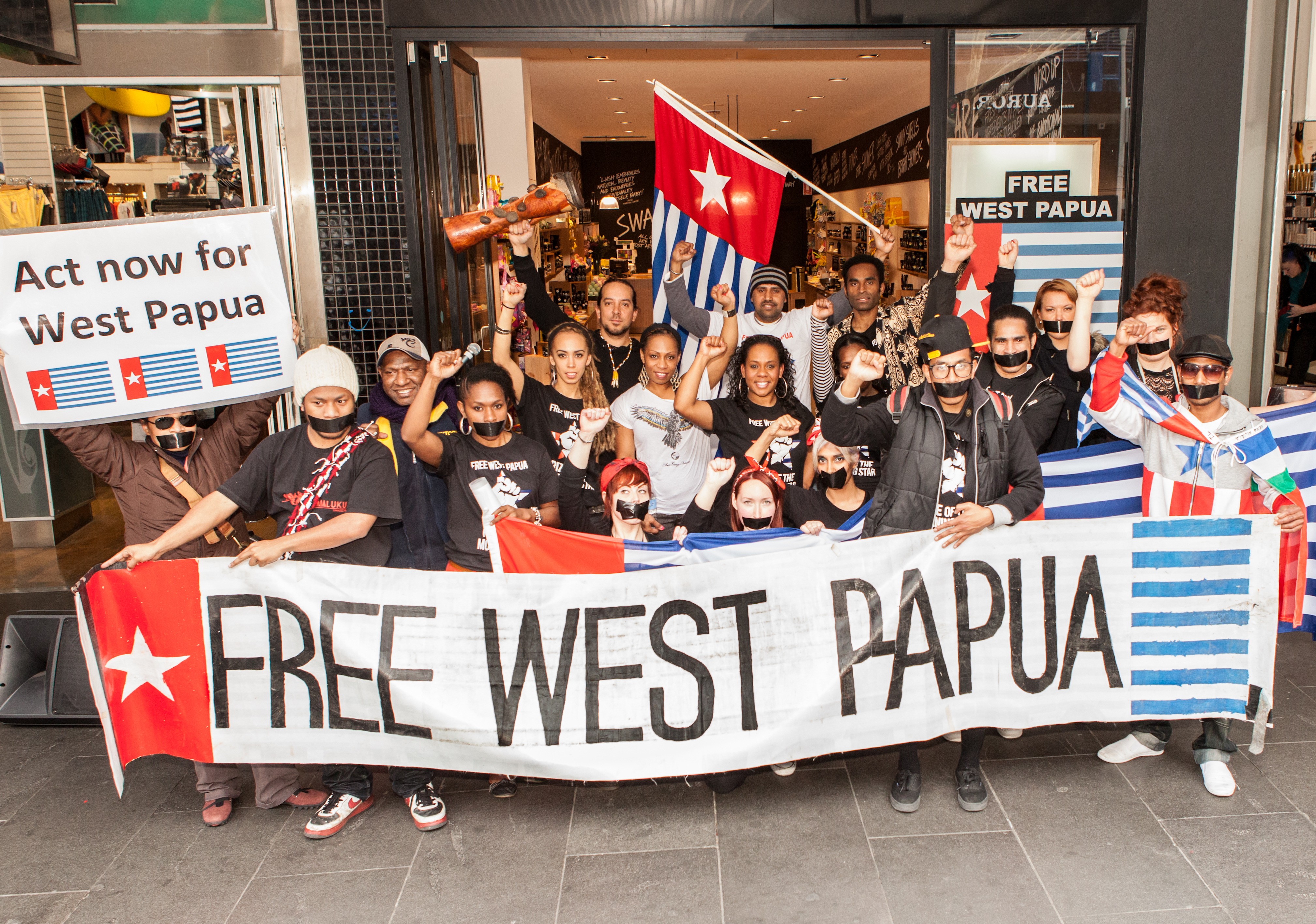 Free West Papua Protest in the Melbourne CBD on August 2012 asking for the release of Filep Karma, the freedom fighter serving 15 years in jail for raising the Morning Star at a rally in 2004. The campaign is also calling on the release of all West Papuan political prisoners.